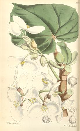 publication of Begonia baccata